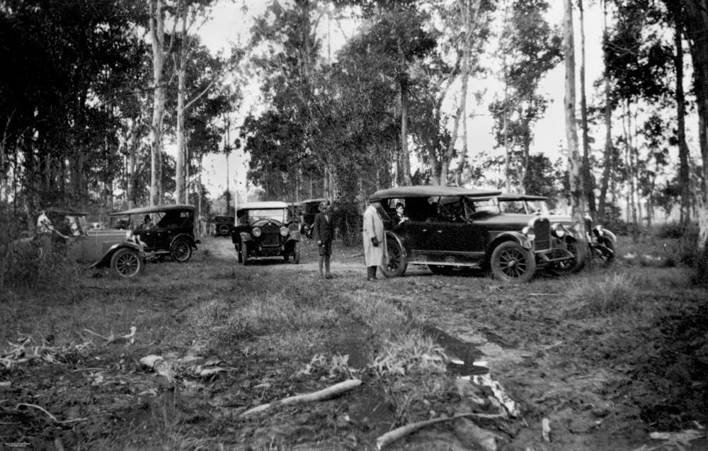 Gathering of early model motor vehicles in the bush at Oxley, 1930.